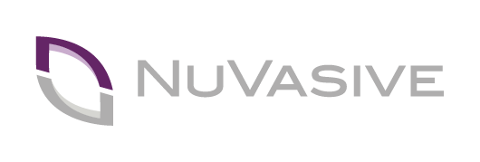 Updated logo